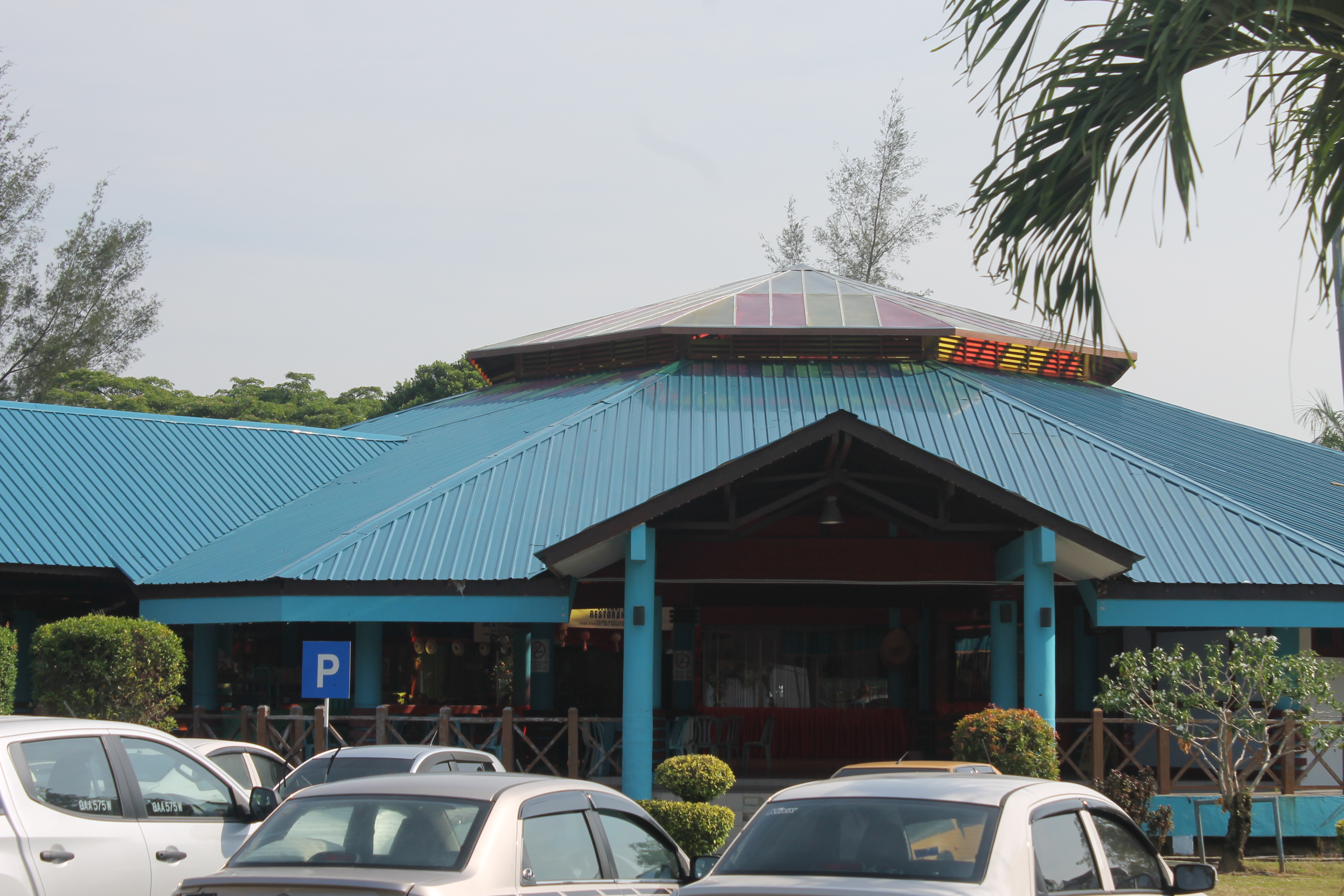 Market inside the town of Tanjung Manis